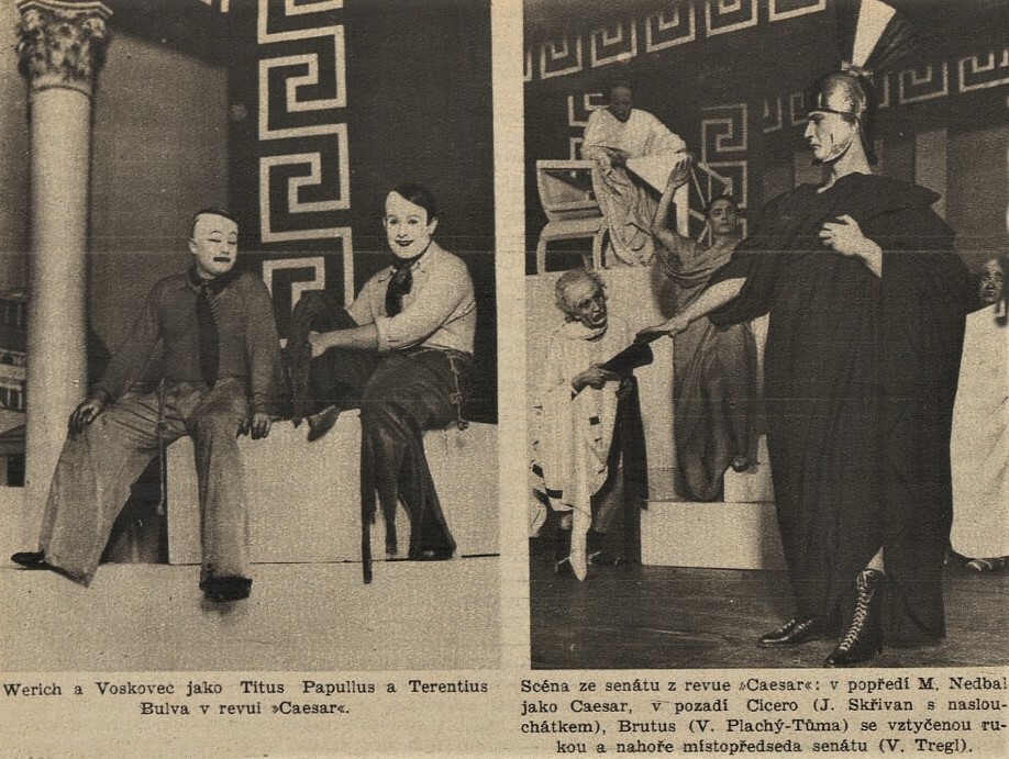 Osvobozené divadlo, Prague 1932, stage play Caesar